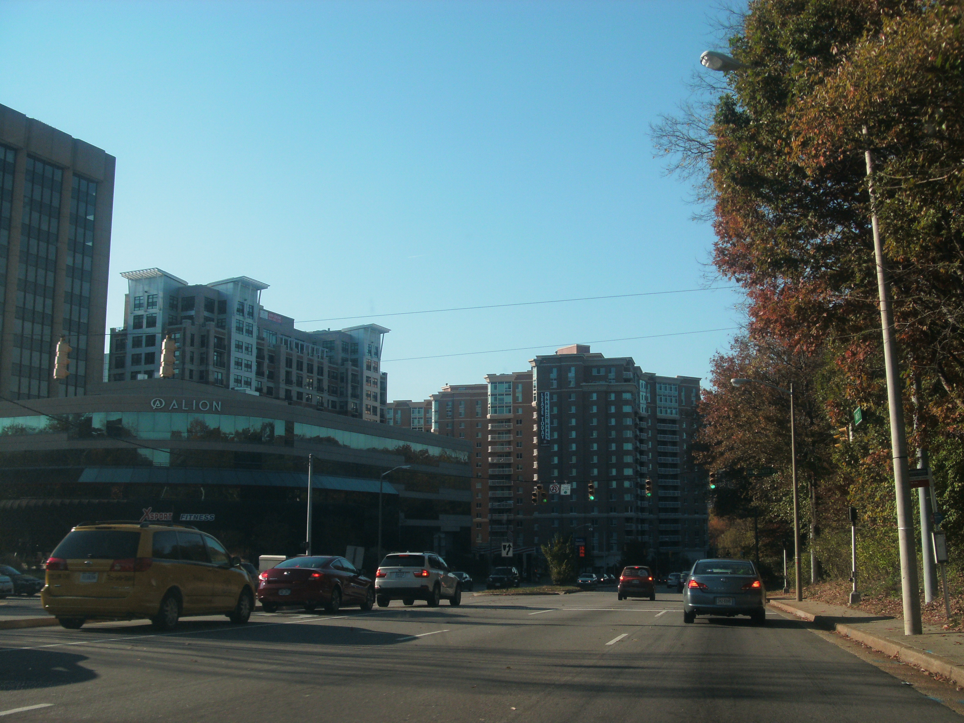 King Street, Alexandria, Virginia GEDSC DIGITAL CAMERA